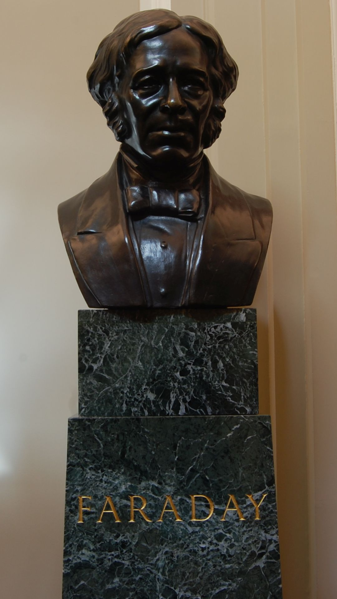 Bust of Michael Faraday, in the collection of the Royal Society of Chemistry, at it's Burlington House, London, headquarters.